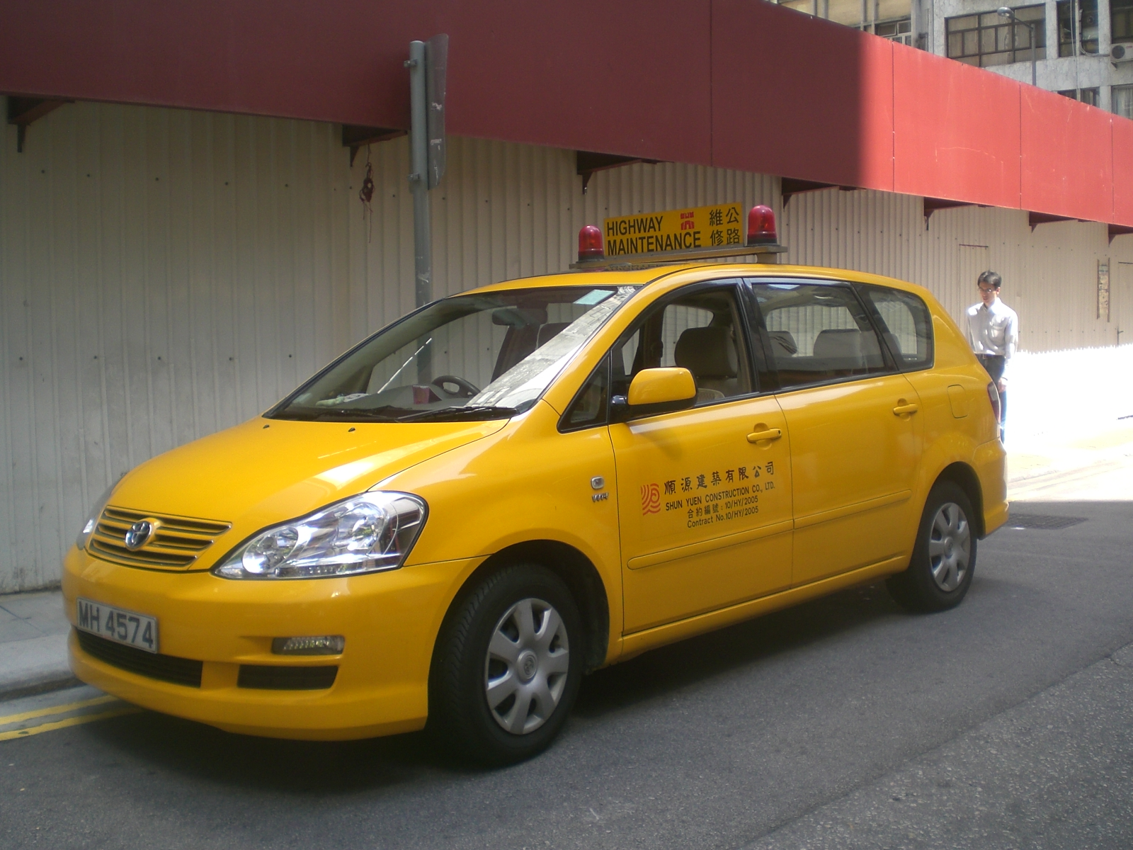 Hong Kong island (Hillier Street) Highway Department maintenance car belonging to contractors Shun Yuen Co. It is a Toyota Picnic, a relabelled version of the second generation Toyota Ipsum